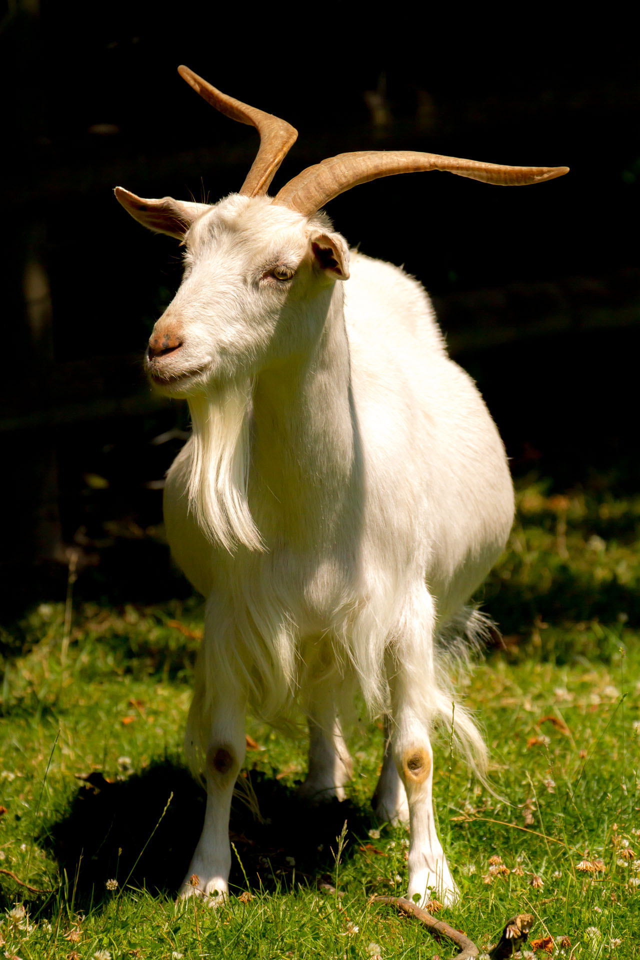 A white irish goat